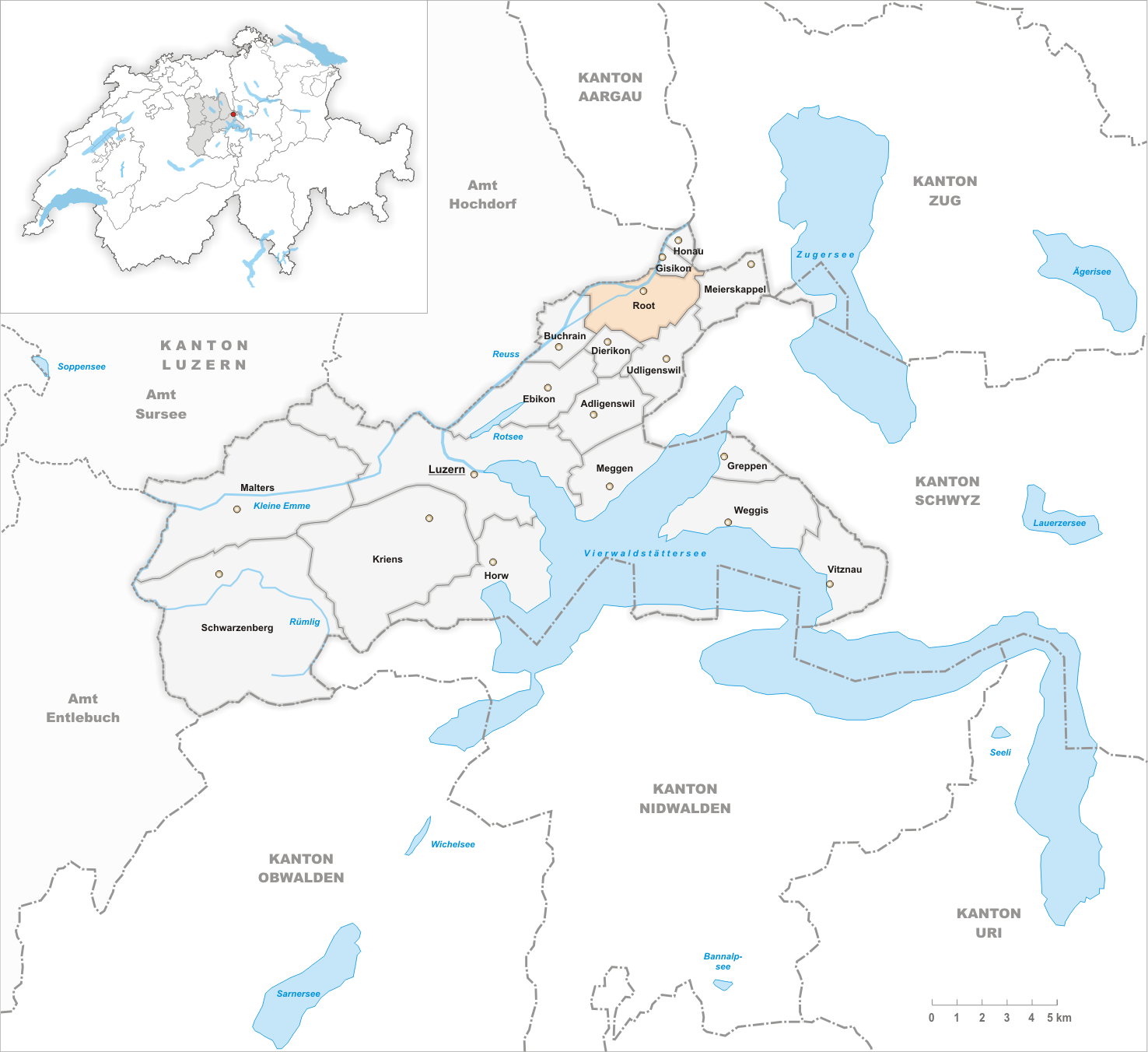 Municipality Root